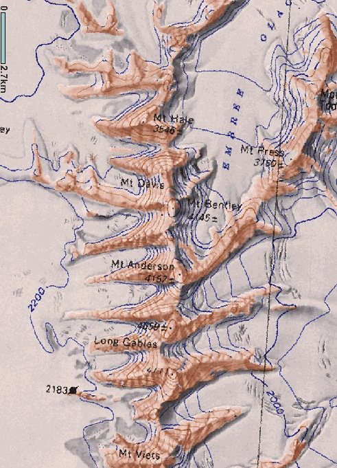 Location of Mount Sisu (unofficially named). Also shows mountains: Todd, Hale, Press, Davis, Bentley, Anderson, Long Gables, Viets